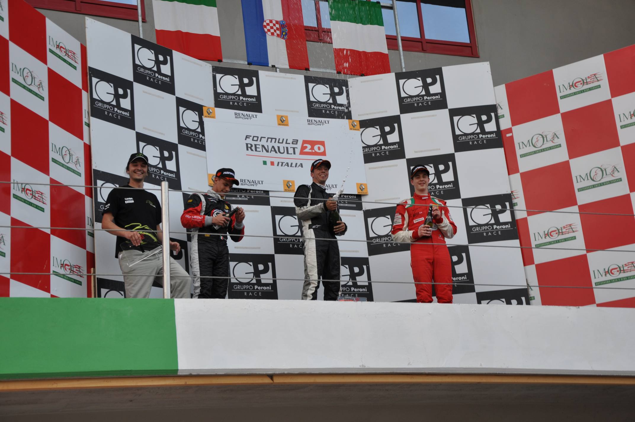 27.5.2012. Kristian Habulin celebrating his first victory for Kreator Racing Team in Imola in Formula Renault 2.0 Italia. Also on podium (from left to right): Davorin Stetner (Kreator Racing - team manager), Dario Capitanio (Team Torino Motorsport), Kristijan Habulin (Kreator Racing Team) and Dario Orsini (GSK Grand Prix).